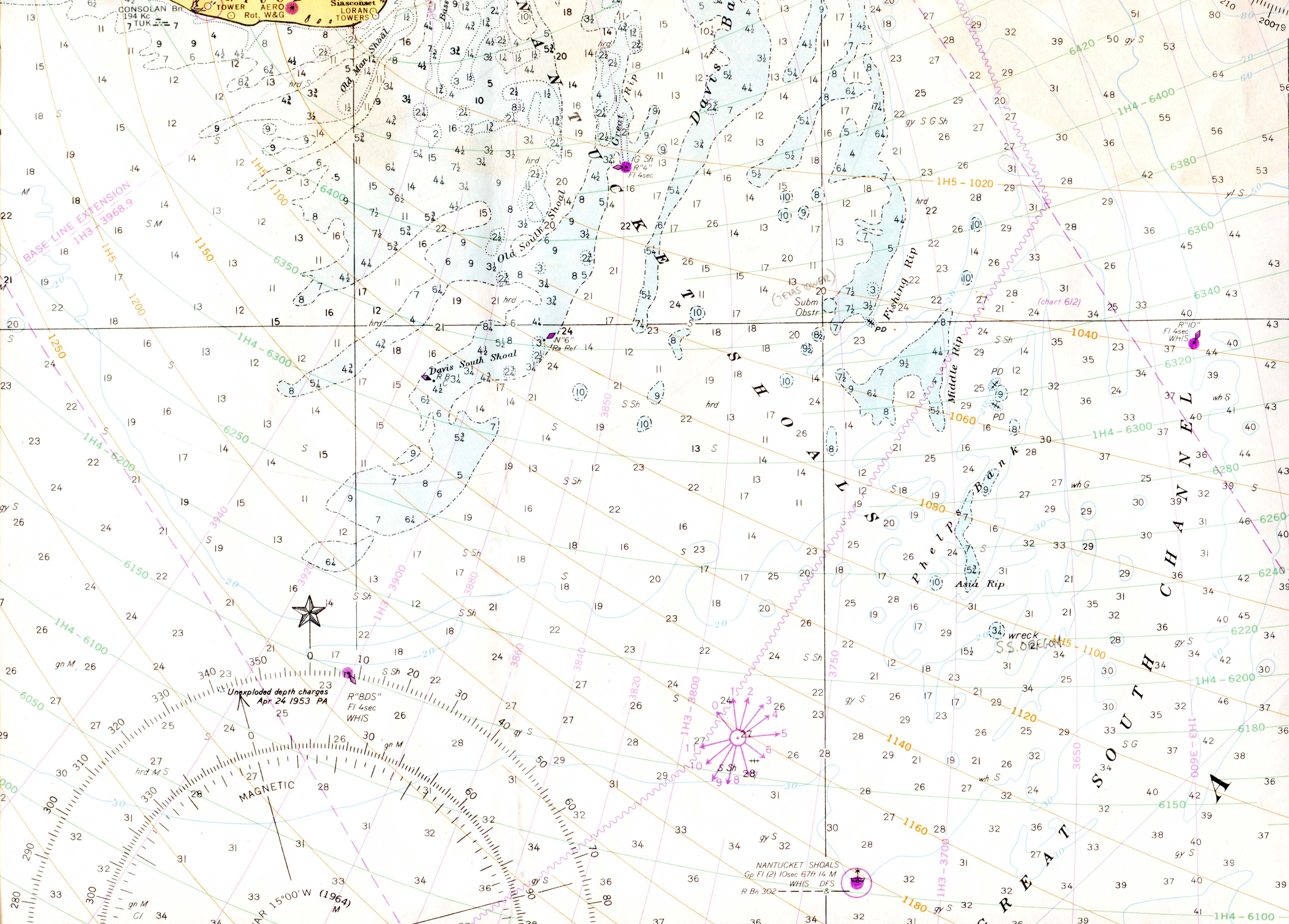 A section of USCGS chart 1107 showing Nantucket Shoals and the location of the Lightship Nantucket Shoals. The chart is corrected through January 7, 1967. The original chart scale is 1:400,000.